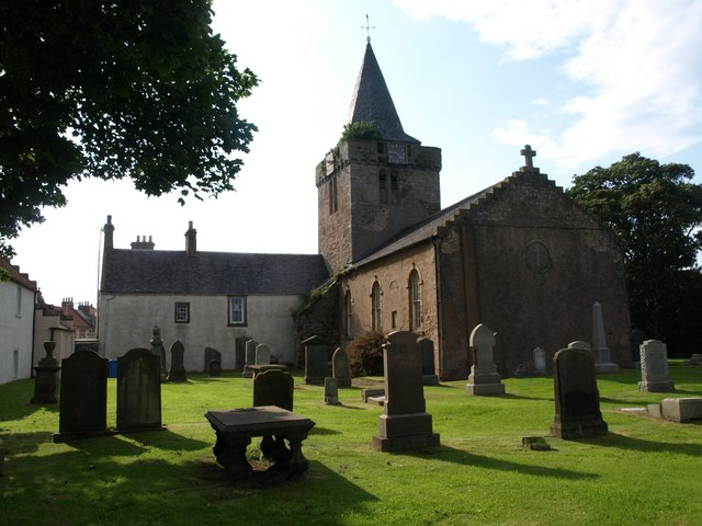 Anstruther Wester: former church This is the former parish church of St Nicholas with its 16th-century bell tower, also shown in 551256. It is now used as a church hall. The view behind the camera is approximately that shown in 937953.